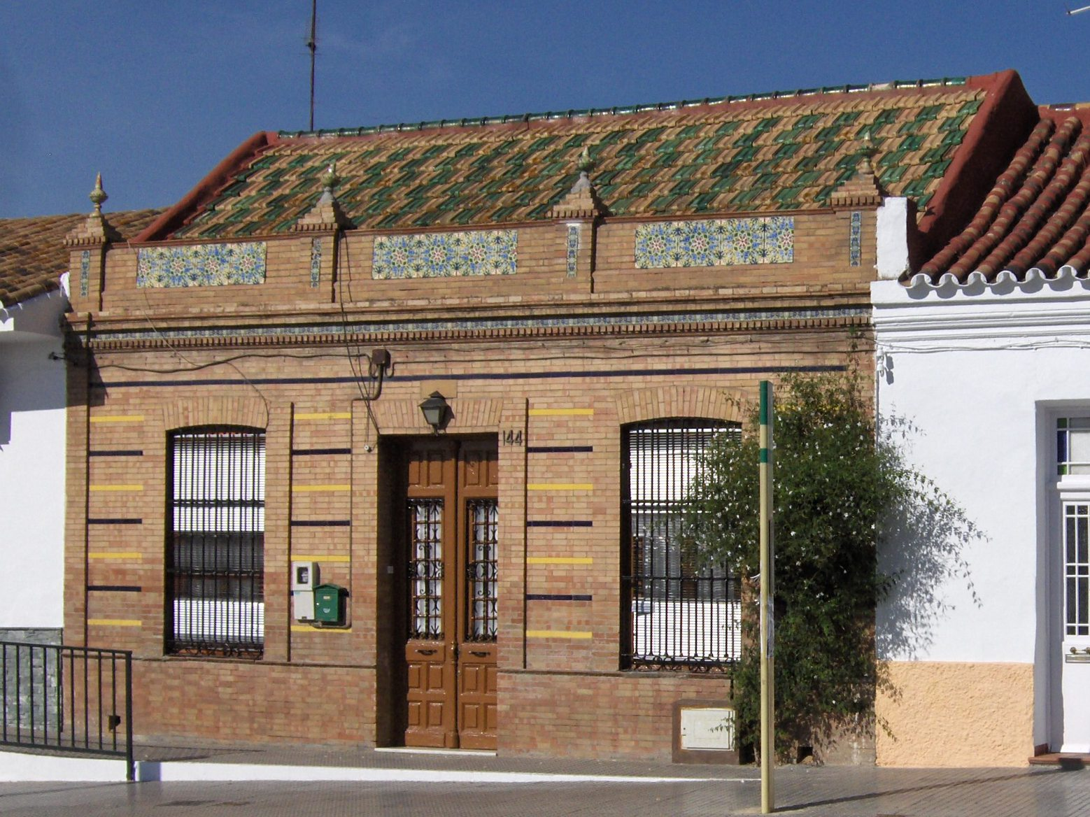 Houses in Puerto de la Torre.